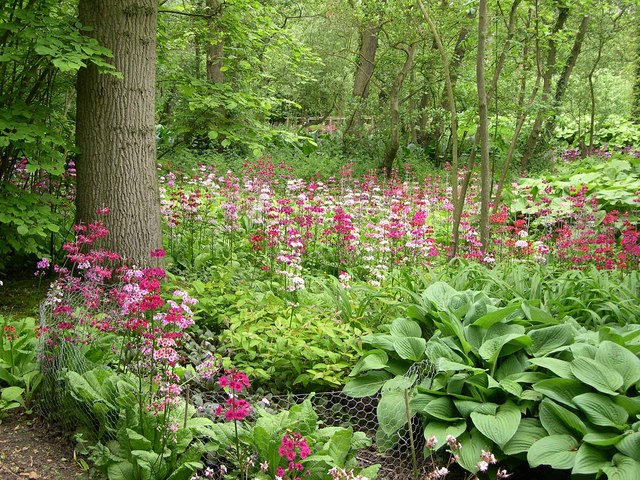 Fairhaven Water Gardens 1 A wonderful display of Candelabra Primulas with the gardens leading down to South Walsham Broad.